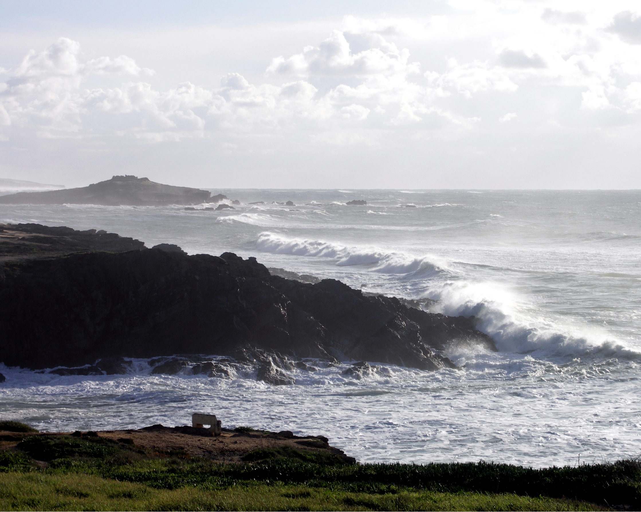 Porto Covo, west coast of Portugal